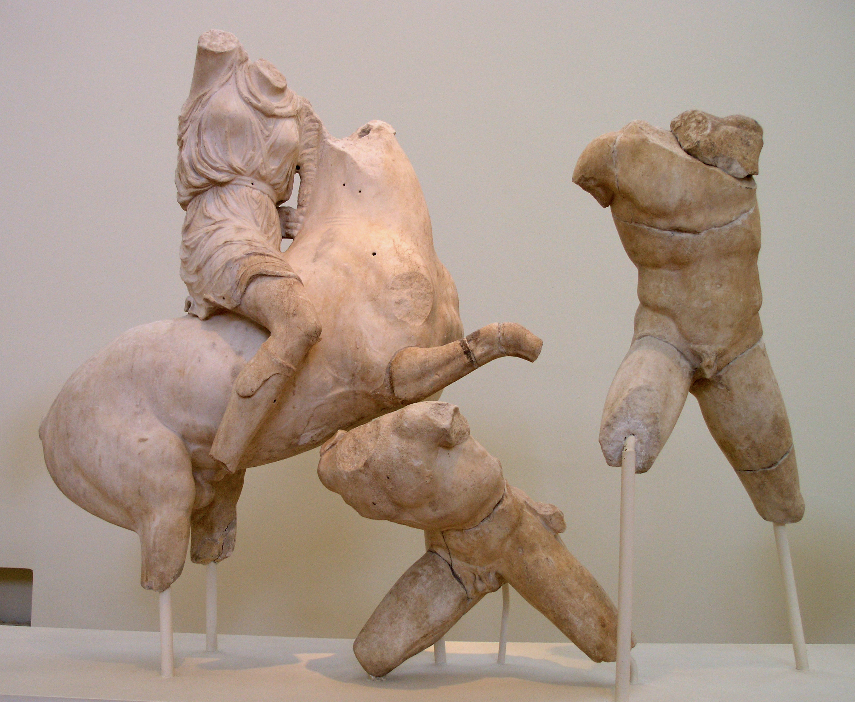 Central group of the amazonomachy on the west pediment of the temple of Asklepios. About 380 BC.